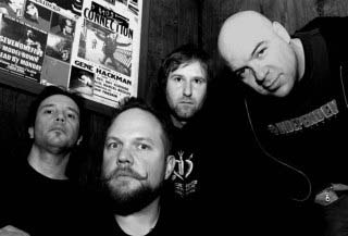 Brainerd band photo with Mike (magma) henry, Daniel (black angus khan) Dieterich, Jon (vortex) Chvojicek, Shawn Blackler